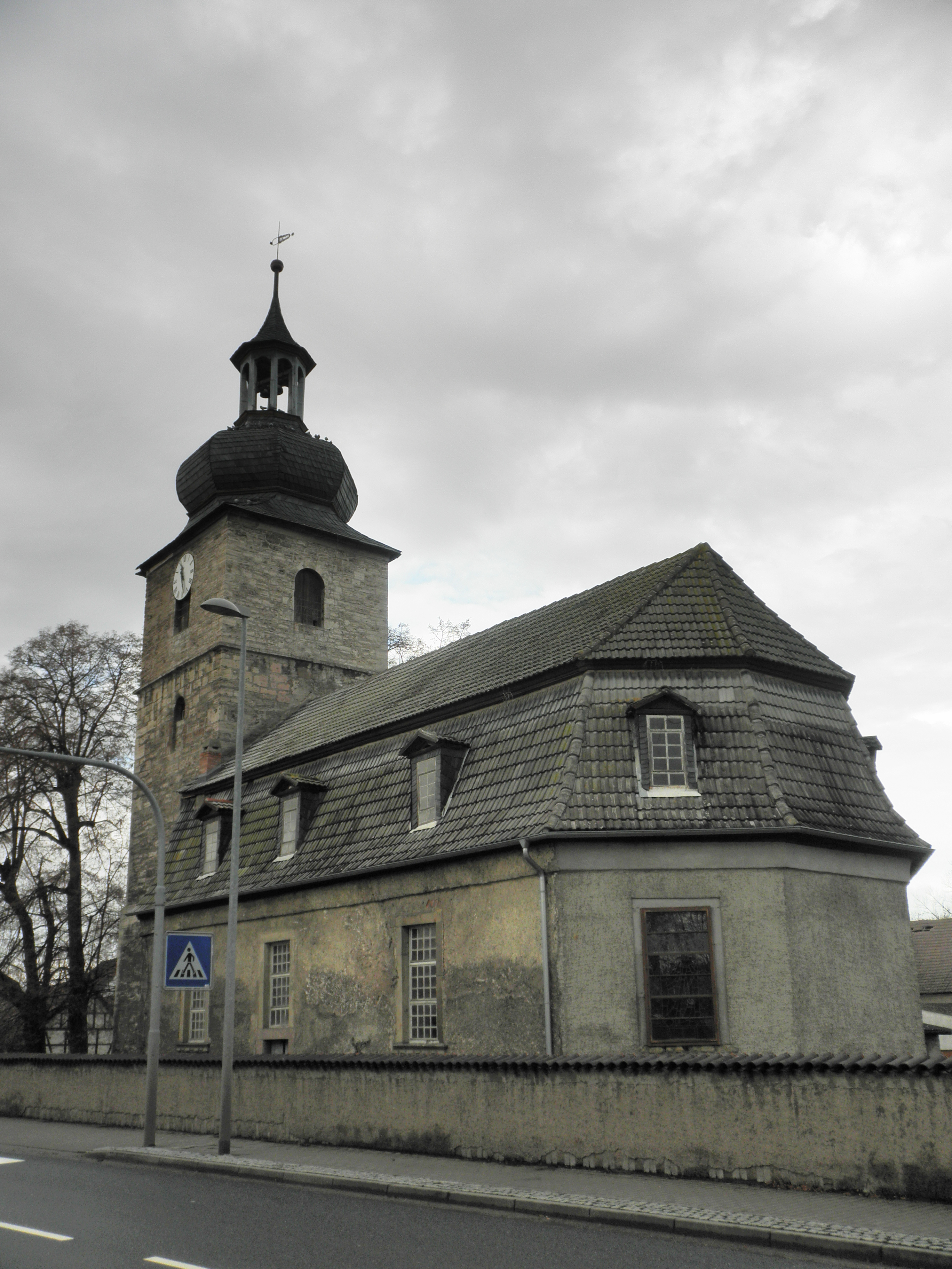 Church in Tunzenhausen, Thuringia